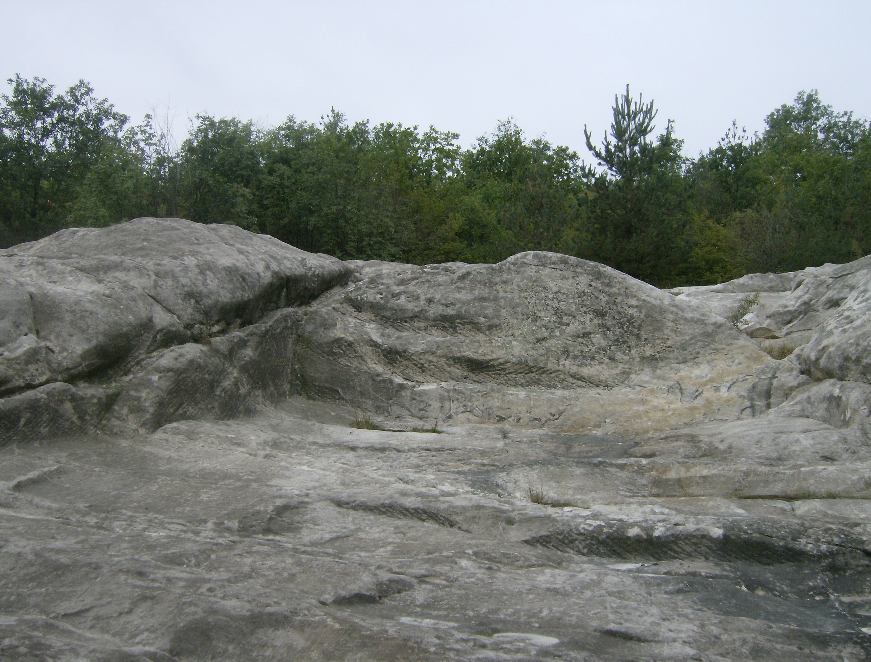 Veselinovo, Shumen District